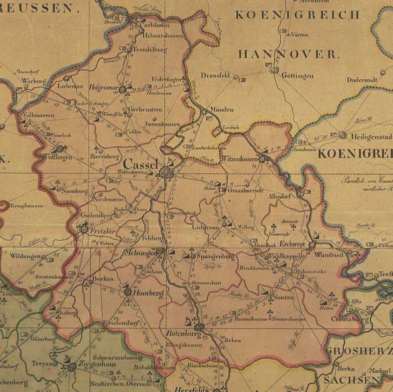 Karte von Kurhessen mit den Stationen der Gendarmerie, 1823 (Hessisches Staatsarchiv Marburg Karte Nr. P II 14597). Kartenausschnitt: Provinz Niederhessen